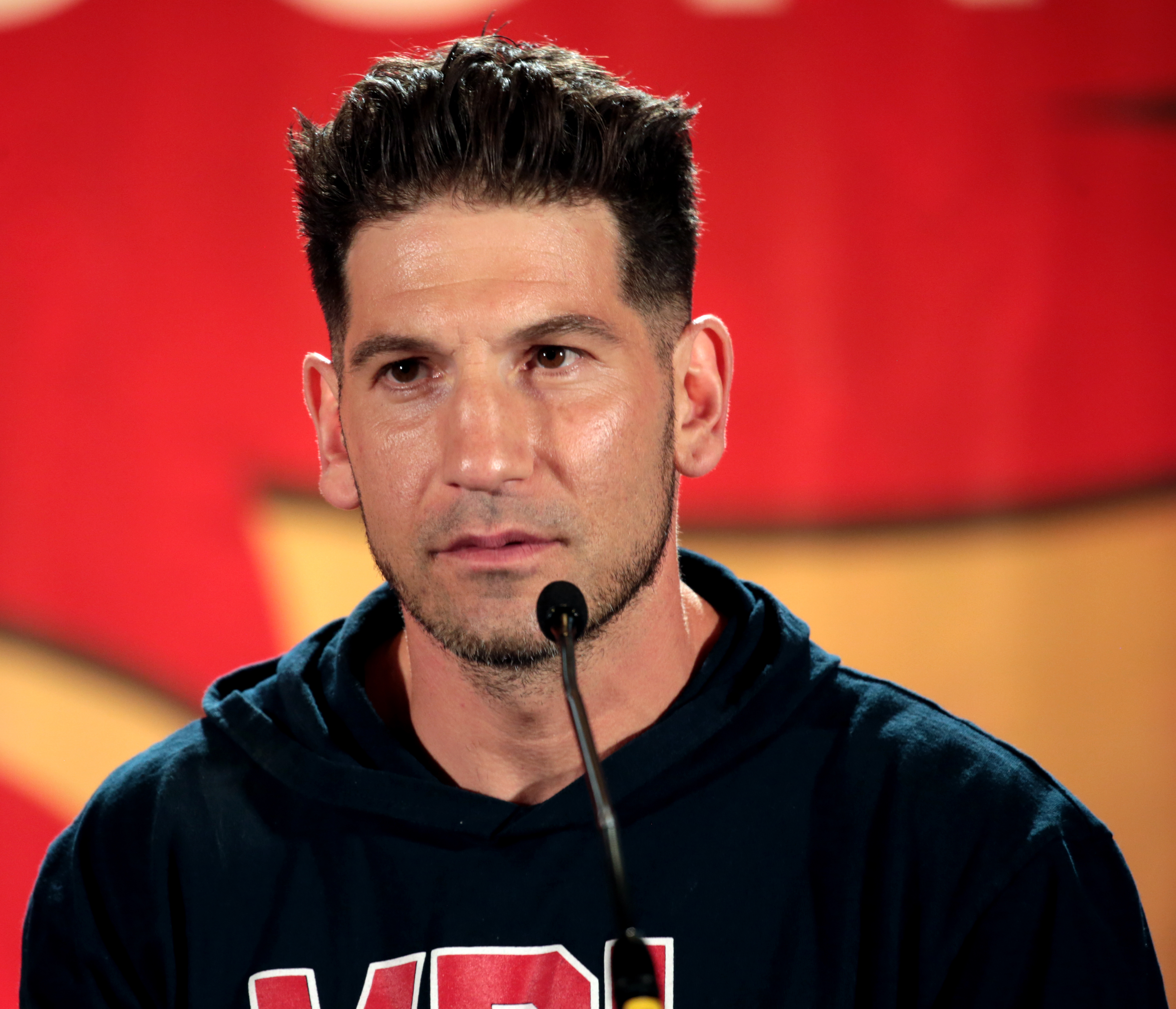 Jon Bernthal speaking at the 2017 Phoenix Comicon at the Phoenix Convention Center in Phoenix, Arizona.